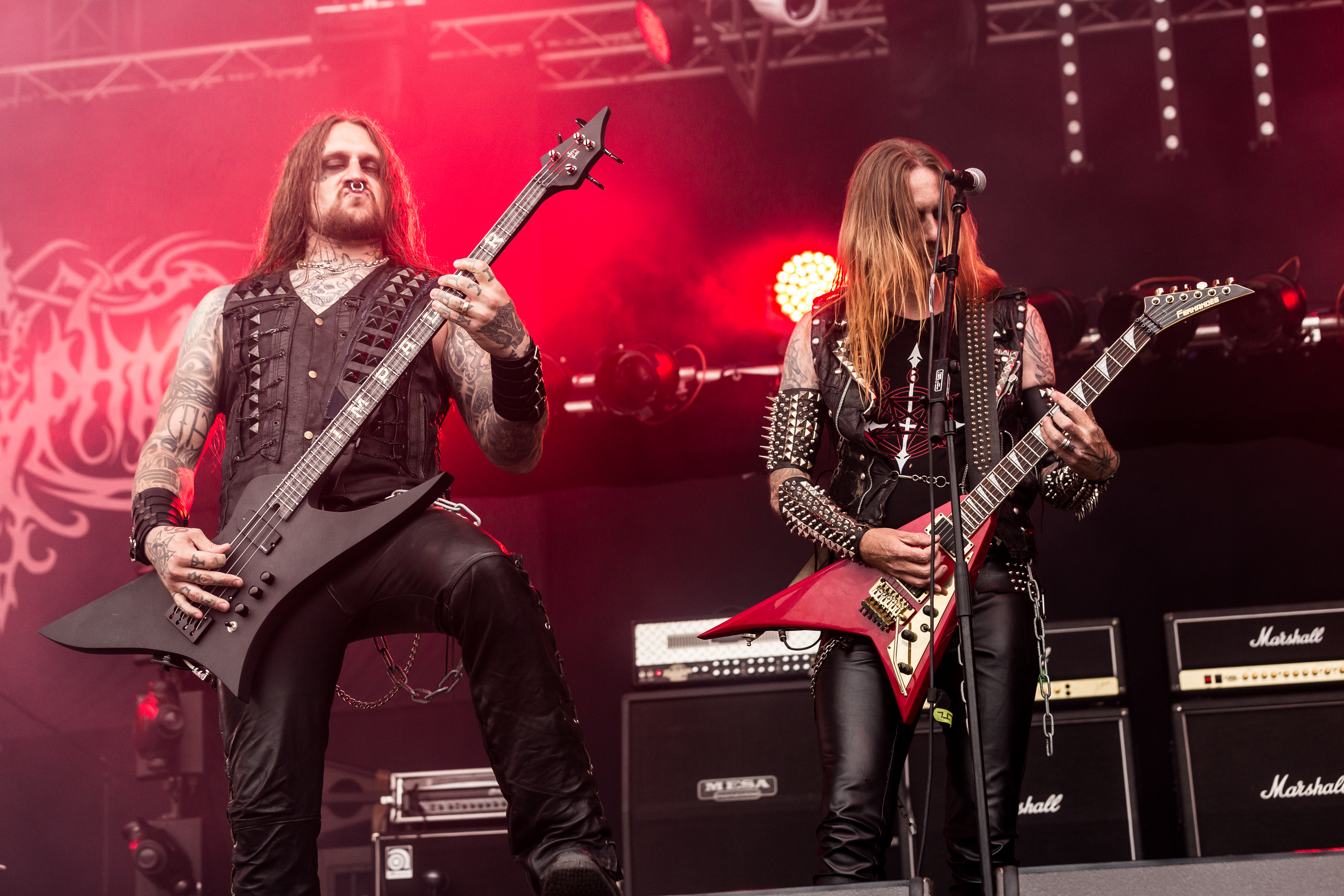 The Swedish death/black metal band Necrophobic at the Party.San Metal Open Air 2017 in Obermehler-Schlotheim/Germany.